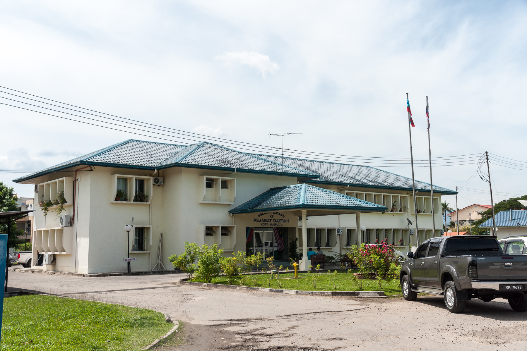 Kota Marudu, Sabah: District Office